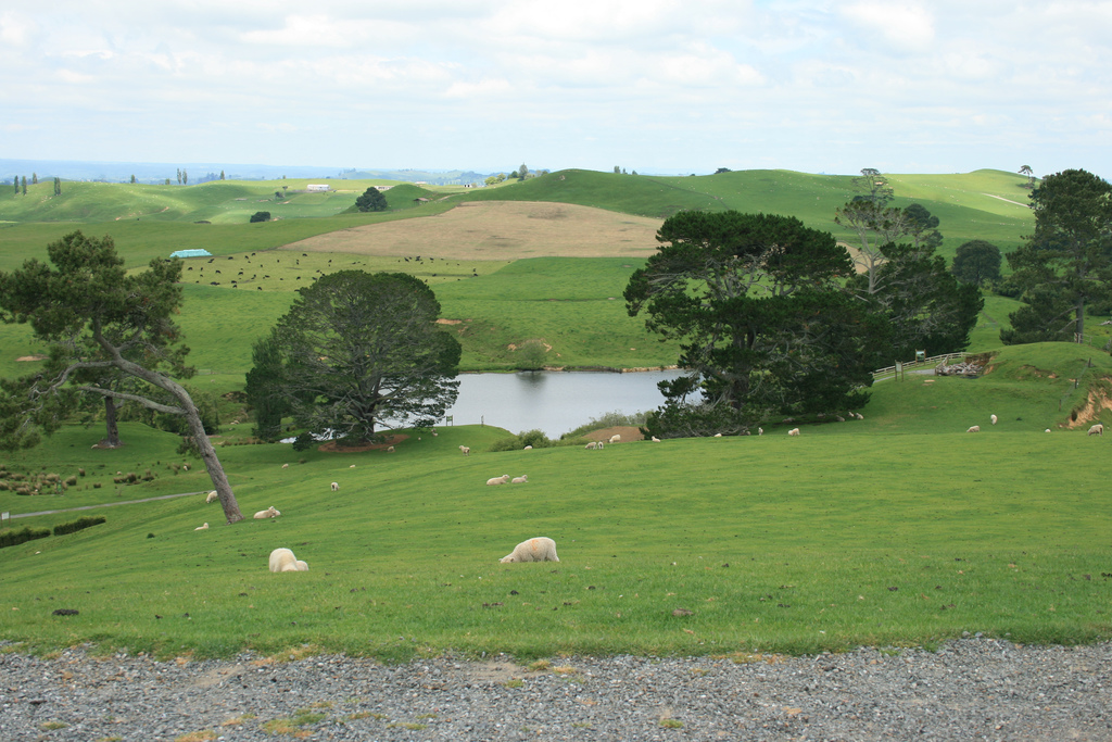 We stopped to visit the Hobbits in Matamata